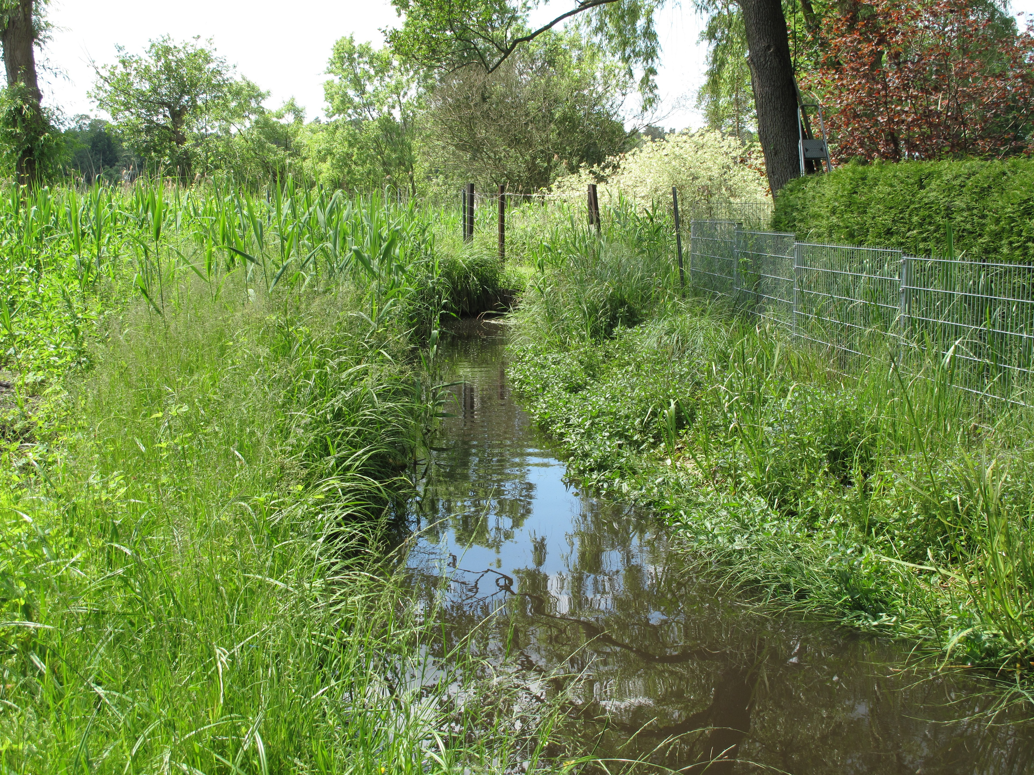 The Lichtenower Mühlenfließ (also called Zinndorfer Mühlenfließ, Zinndorfer Fließ, or Garzower Mühlenfließ) is a 22,8 kilometers long stream in the districts Märkisch-Oderland and Oder-Spree, Brandenburg, Germany. It is named after the village Lichtenow, part of the municipality Rüdersdorf.